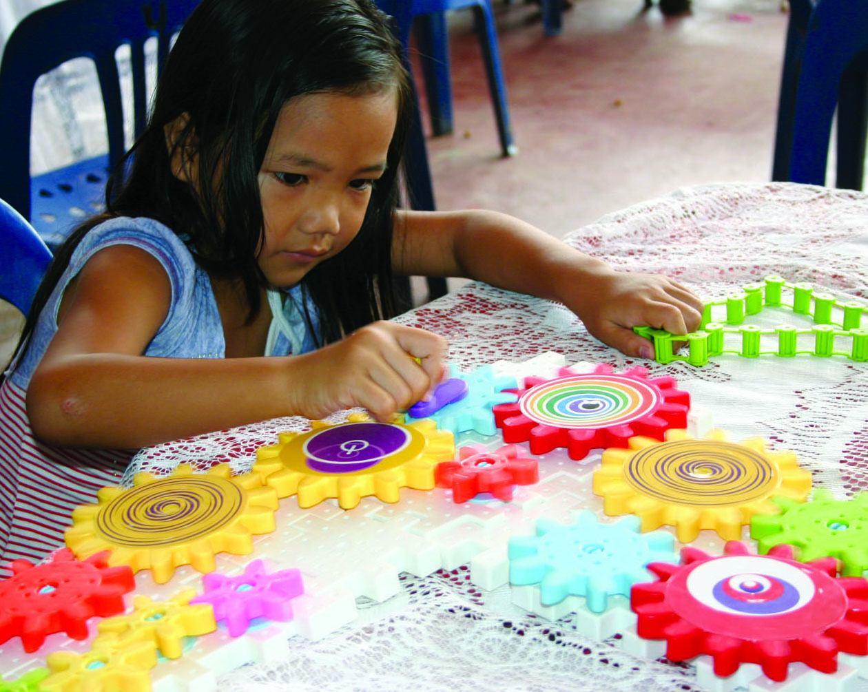 A Lao girl explores how gears work. She had never had an opportunity to play with any such toy. This was one of many interactive activities offered at a "Discovery Day" festival in Luang Prabang, Laos, by Big Brother Mouse, a literacy project in Laos. Students tried more than 30 activities that they had never done before: play number games, examine fossils, look at 3-D pictures, and put together jigsaw maps.